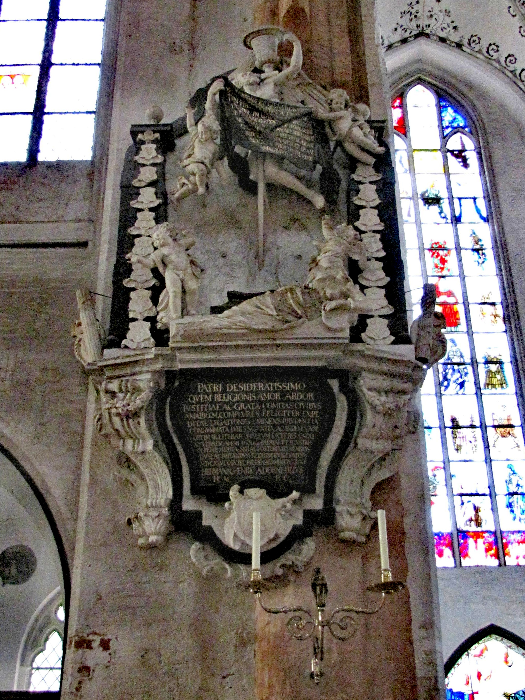 Epitaph for Hieronymus von Dorne (1646-1704) by Thomas Quellinus, fragmentary since 1942